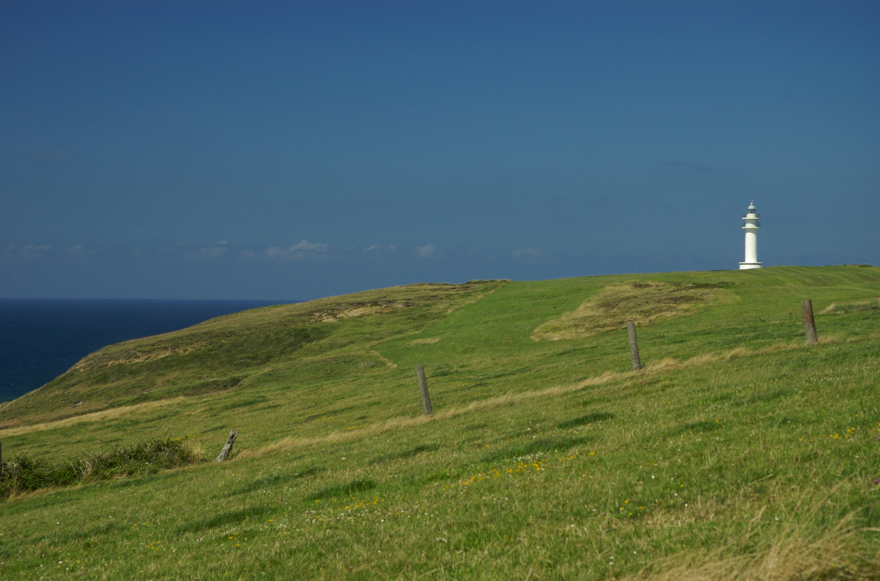 Cabo de Ajo, en Cantabria (España). July 2007